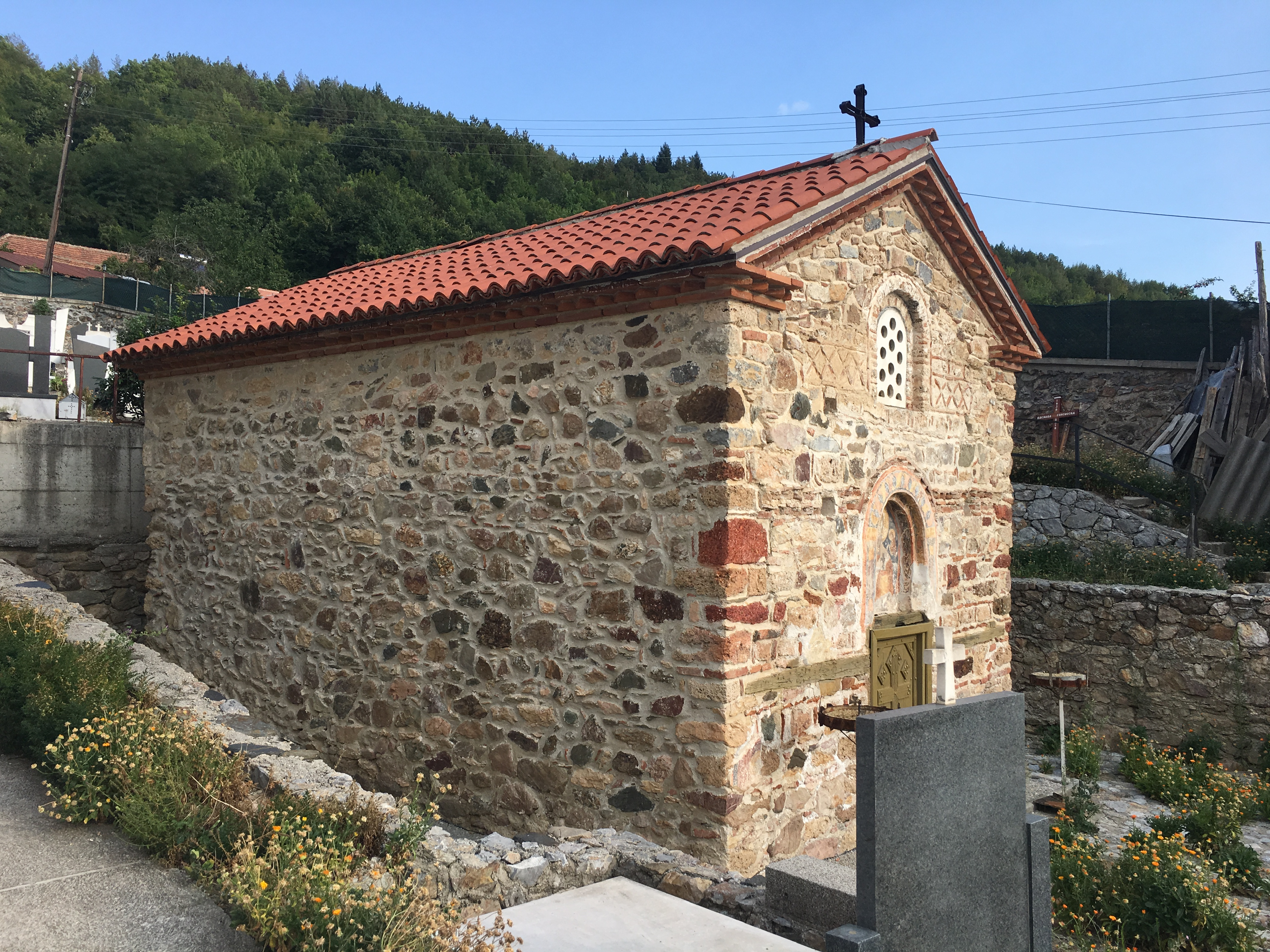 Old St. Nicholas Church in the village of Kosel